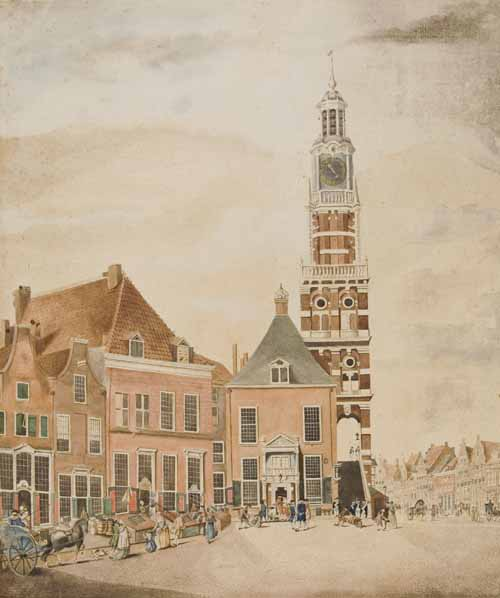 Great Market square in Zutphen